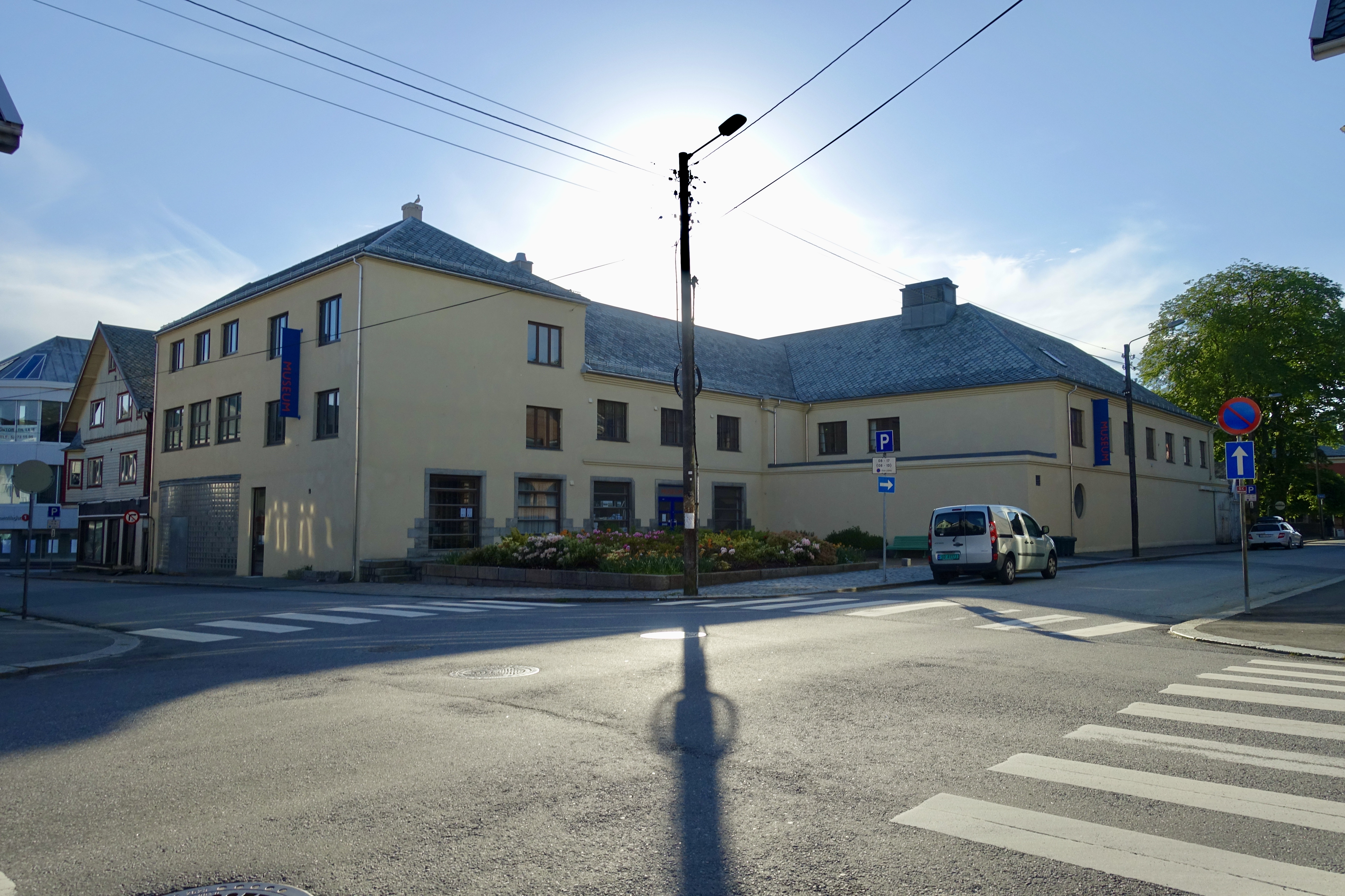 Karmsund folkemuseum, a museum in Haugesund, Norway focusing on the cultural history of the town of Haugesund and the northern part of Rogaland county, especially in the 19th and 20th century. Photo taken on a summer evening on June 10th, 2020.